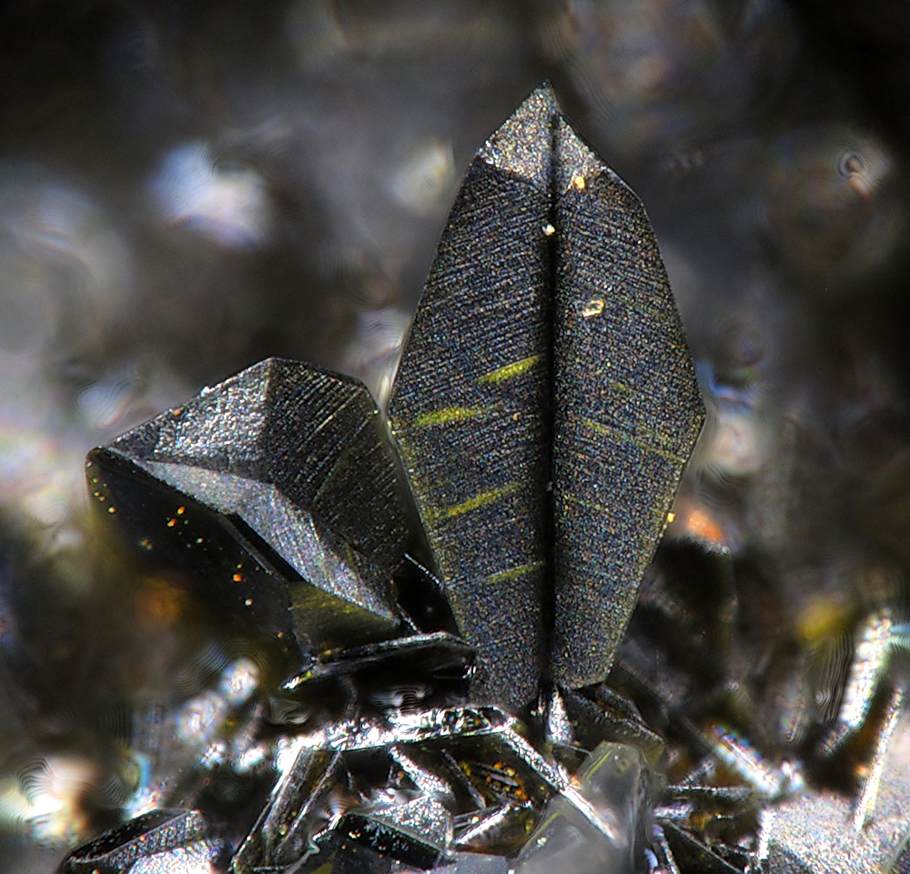 Vauquelinite Locality: Berezovskoe Au Deposit (Berezovsk Mines), Berezovskii (Berezovskii Zavod), Ekaterinburg (Sverdlovsk), Sverdlovskaya Oblast', Middle Urals, Urals Region, Russia Picture width 2 mm. PXRD confirmed. Collection and photograph Christian Rewitzer